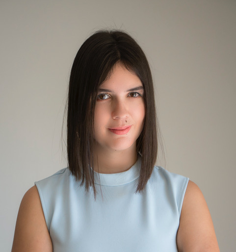 This is a photo of Irati Mujika.